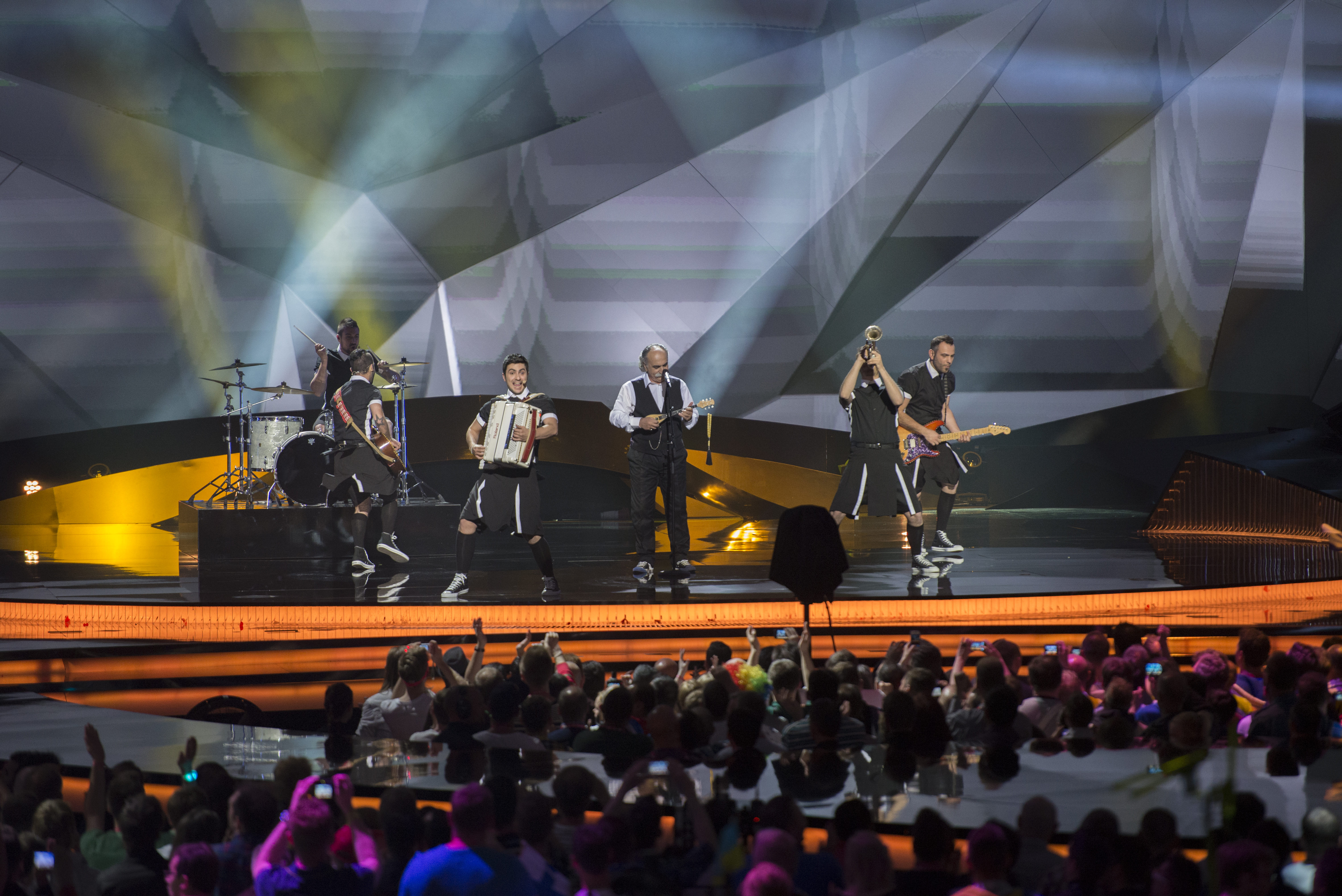 Koza Mostra feat. Agathon Iakovidis representing Greece with the song "Alcohol Is Free" during the second dress rehearsal of the second semi final of the Eurovision Song Contest 2013 in Malmö. (Help translate this text)